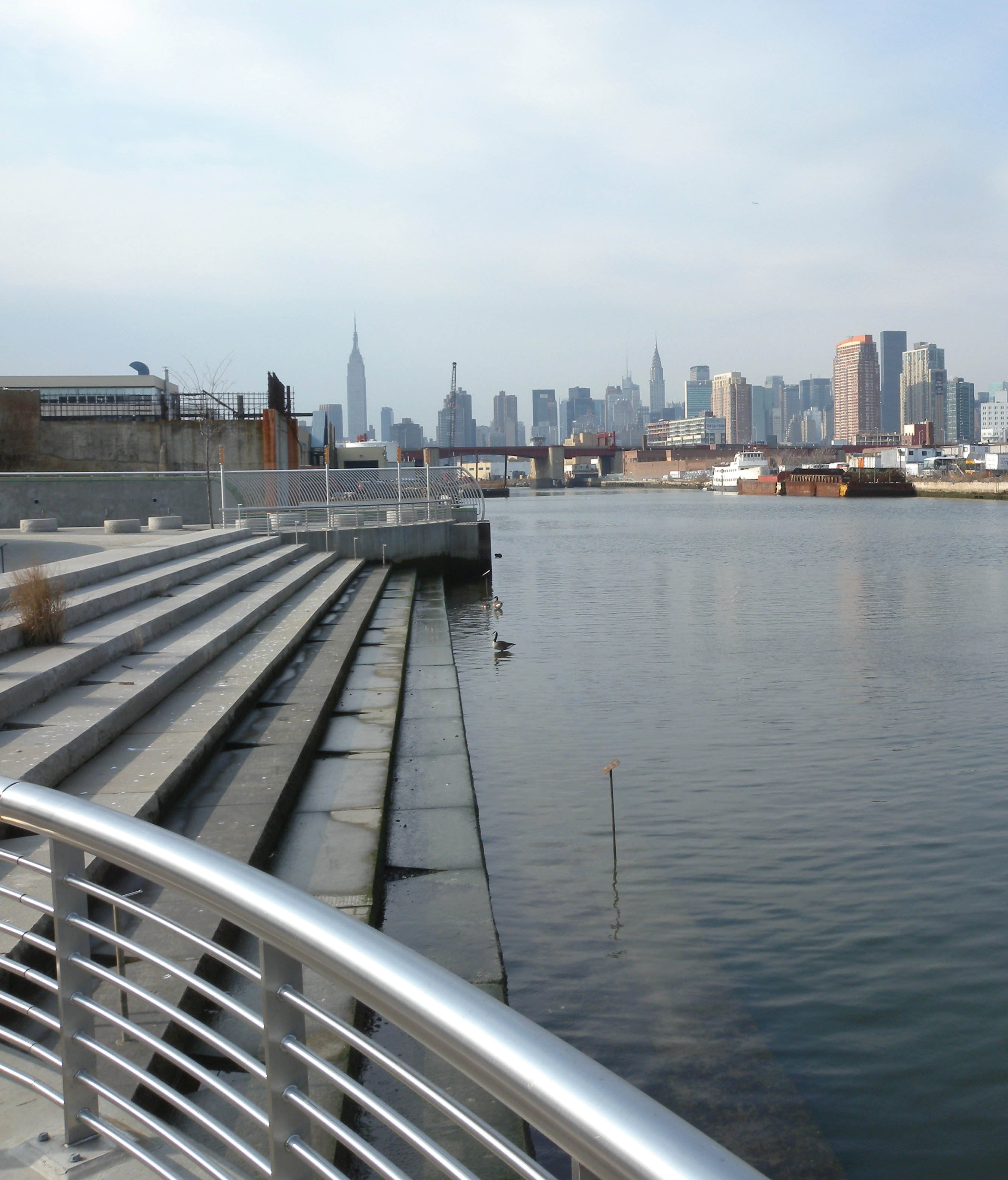 Looking northwest along Newtown Creek Nature Walk park from Whale Creek confluence on a sunny early afternoon.